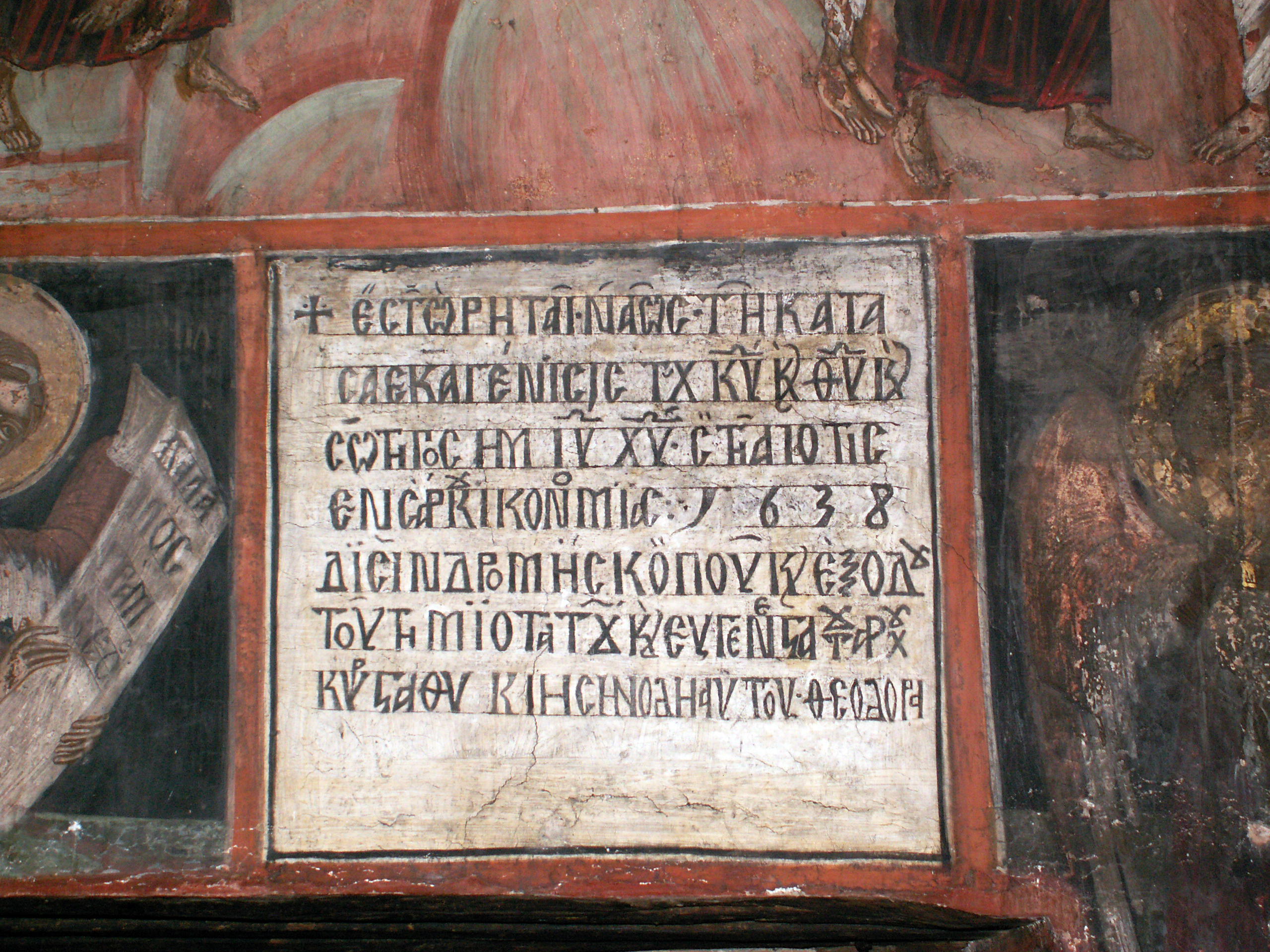 Fresco inscription dated 1638 from the Church of the Nativity of Christ, Arbanasi, Bulgaria